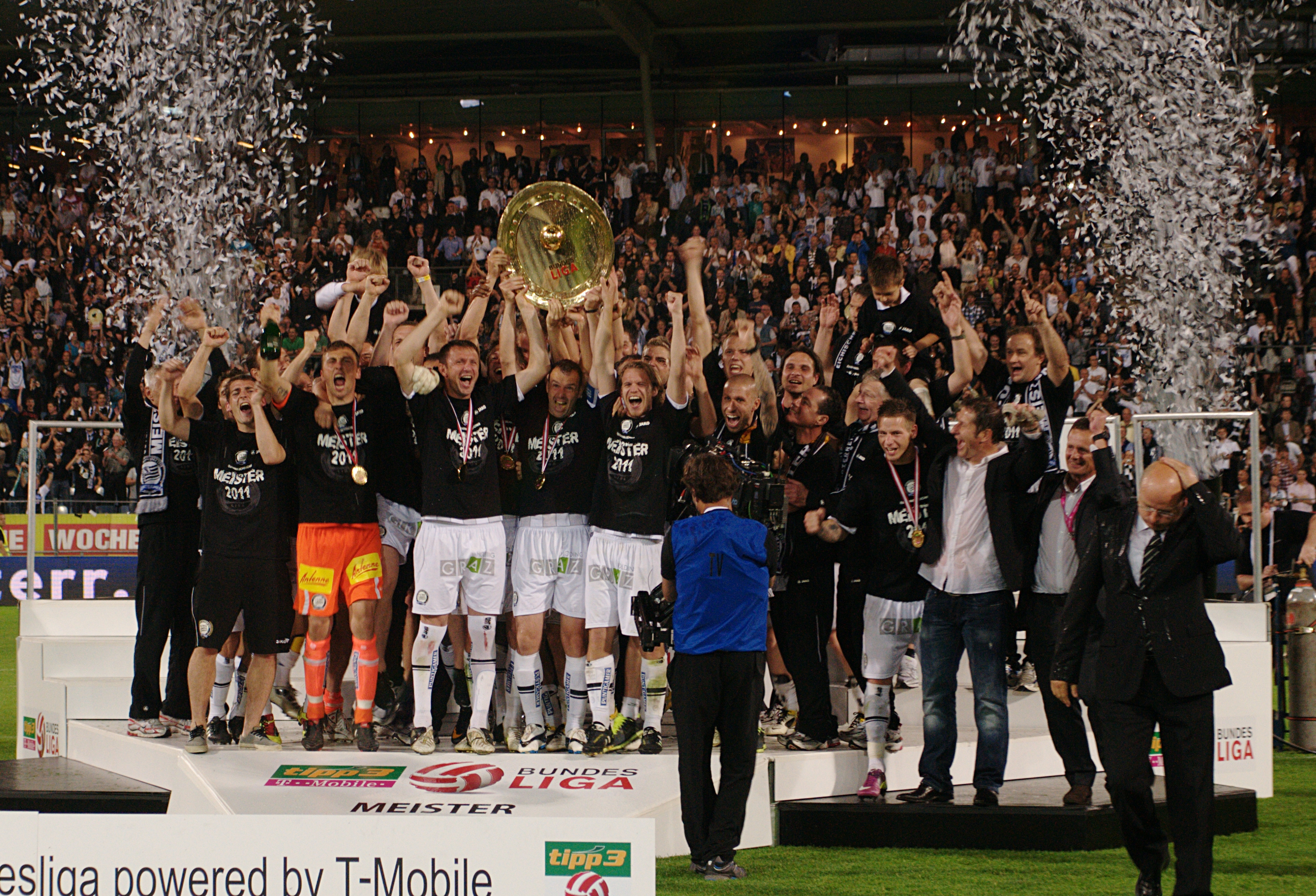 at the game SK Sturm Graz vs. Wacker Innsbruck Location: UPC Arena, Graz, Austria Camera: Nikon D300s Lens: AF-S VR Nikkor 300 mm 1:2,8 IF-ED f/4,5 Film / Speed: ISO 400 Comment